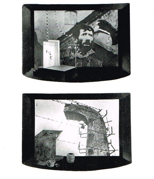 Alek Rapoport. Furcht und Elend des III Reiches (Fear and Misery of the Third Reich), 1962. Gouache, collage, photomontage, 24 x 32”. Collection of the Museum of the Institute of Theater Arts, St.Petersburg.